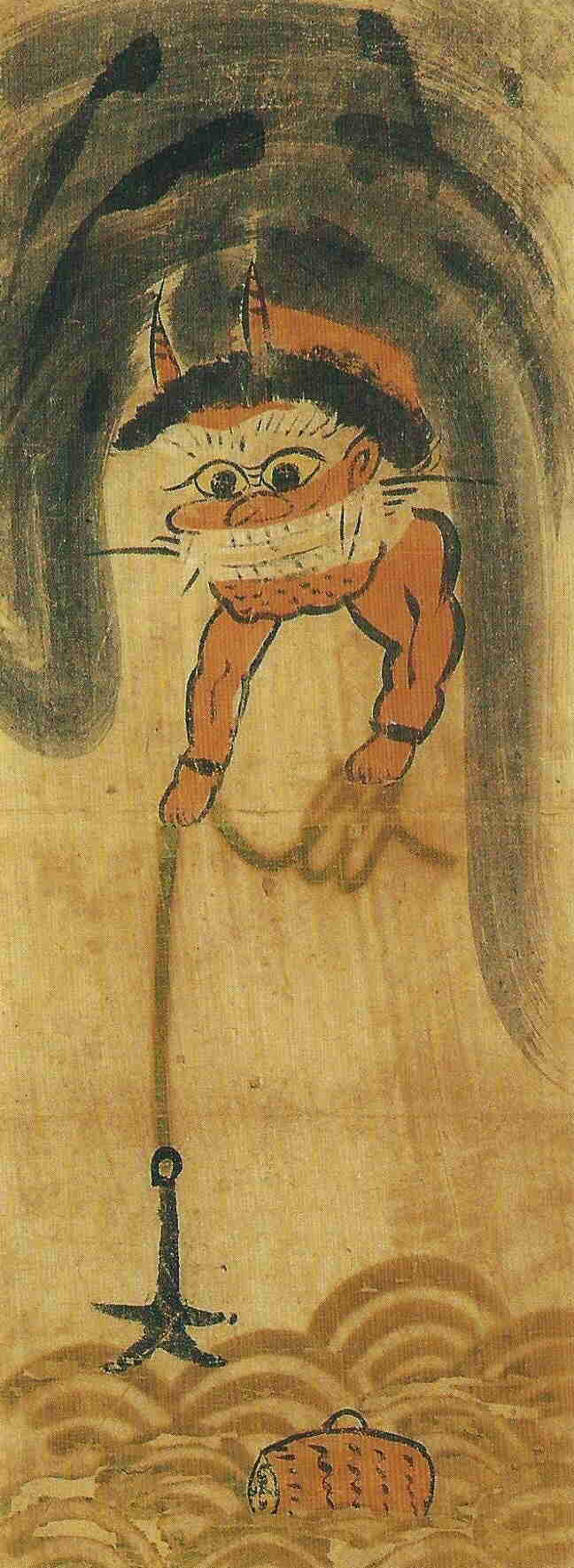 Otsu-e: Thunder